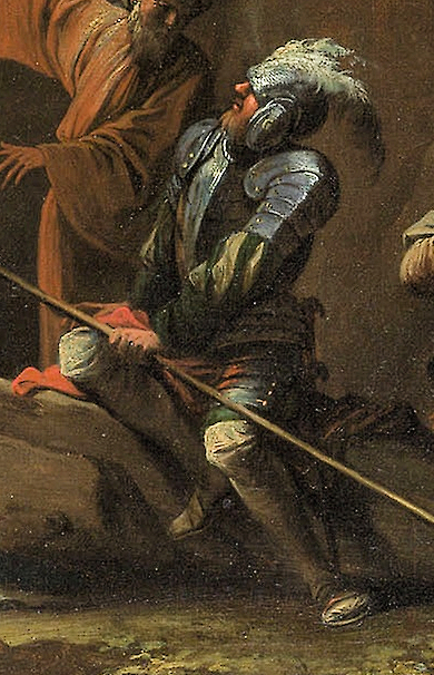 Oroetes